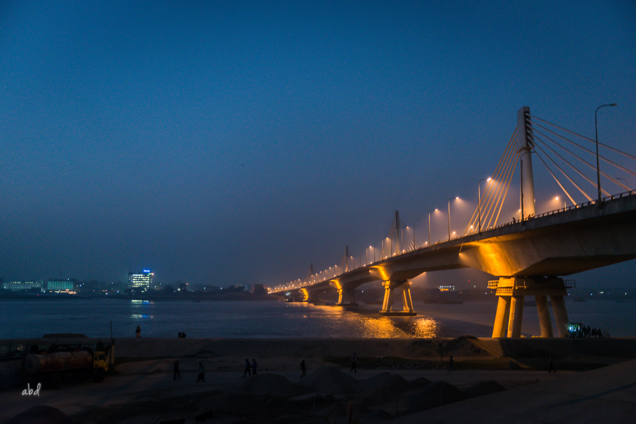 The Shah Amanat Bridge on Karnaphuli river of Chittagong city in Bangladesh.